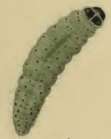 Stainton’s Natural History of the Tineina (1855–1873): Caryocolum fischerella